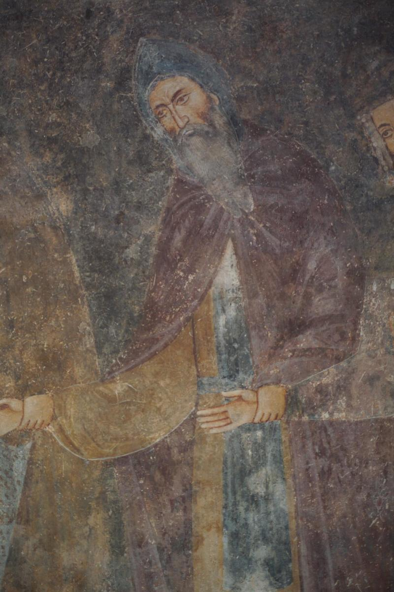 Simon/Stefan Prvovenčani, second half of the XIII century, fresco from Sopoćani monastery, Serbia